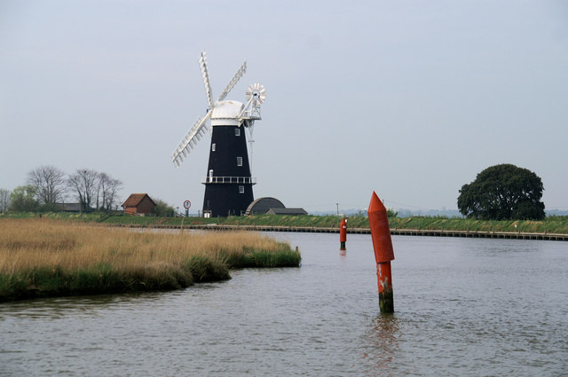 Berney Arms Reach A view upstream across the bend in the River Yare at Berney Arms, with the mill (next square) beyond.